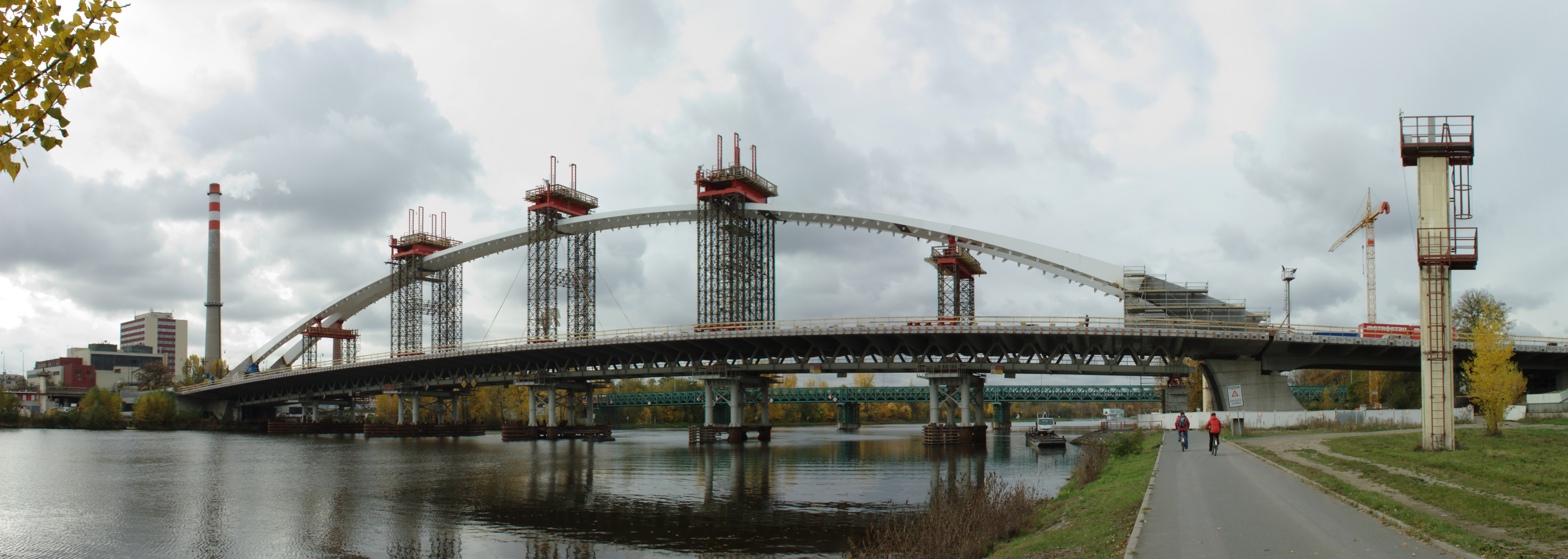 Trojský most under construction in Prague-Troja in October 2012